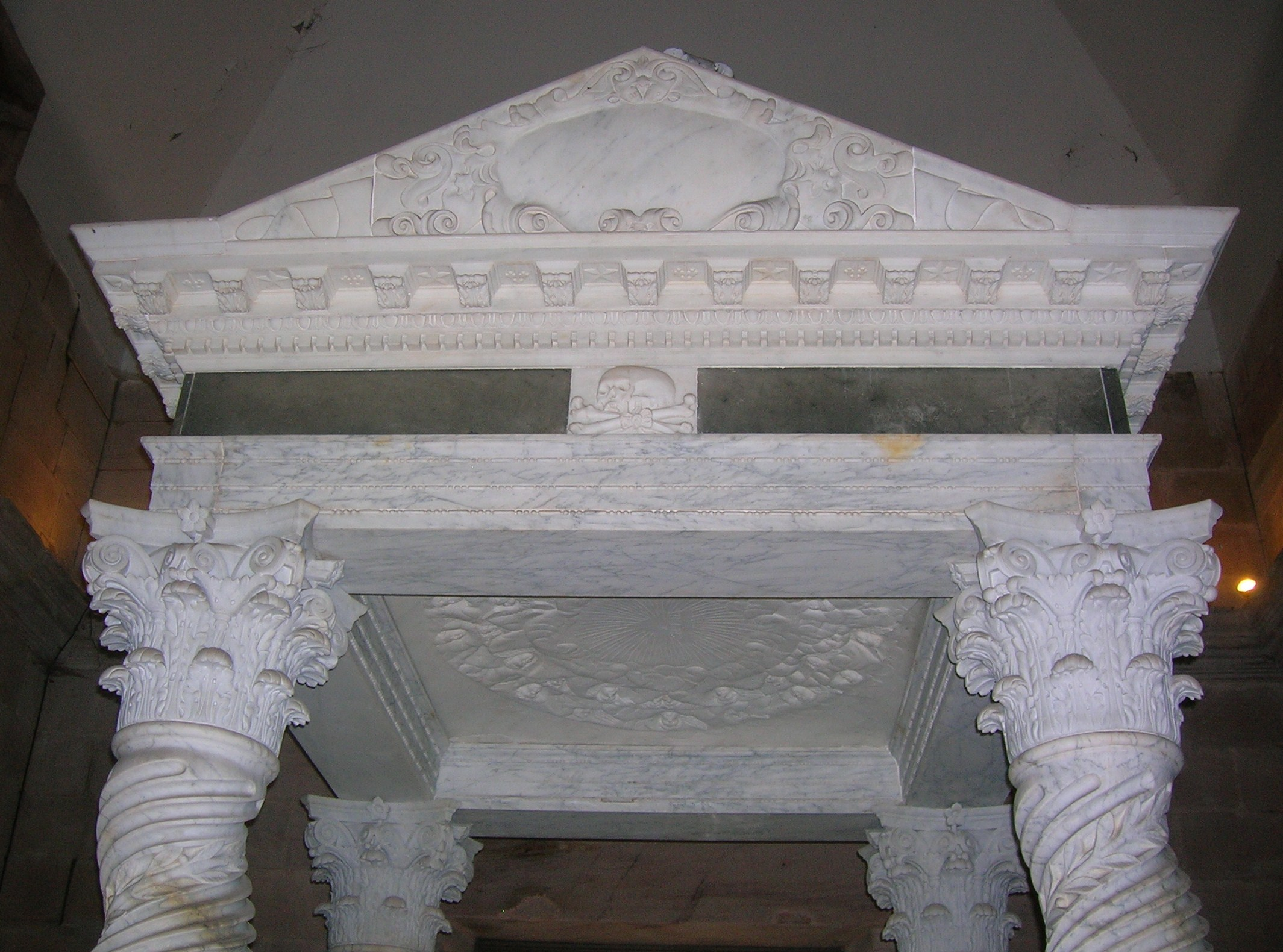 The Balduchin or Ciborium at Durisdeer Church, attributed to James Smith of Whitehill. Early 18th century. Dumfries & Galloway, Scotland.